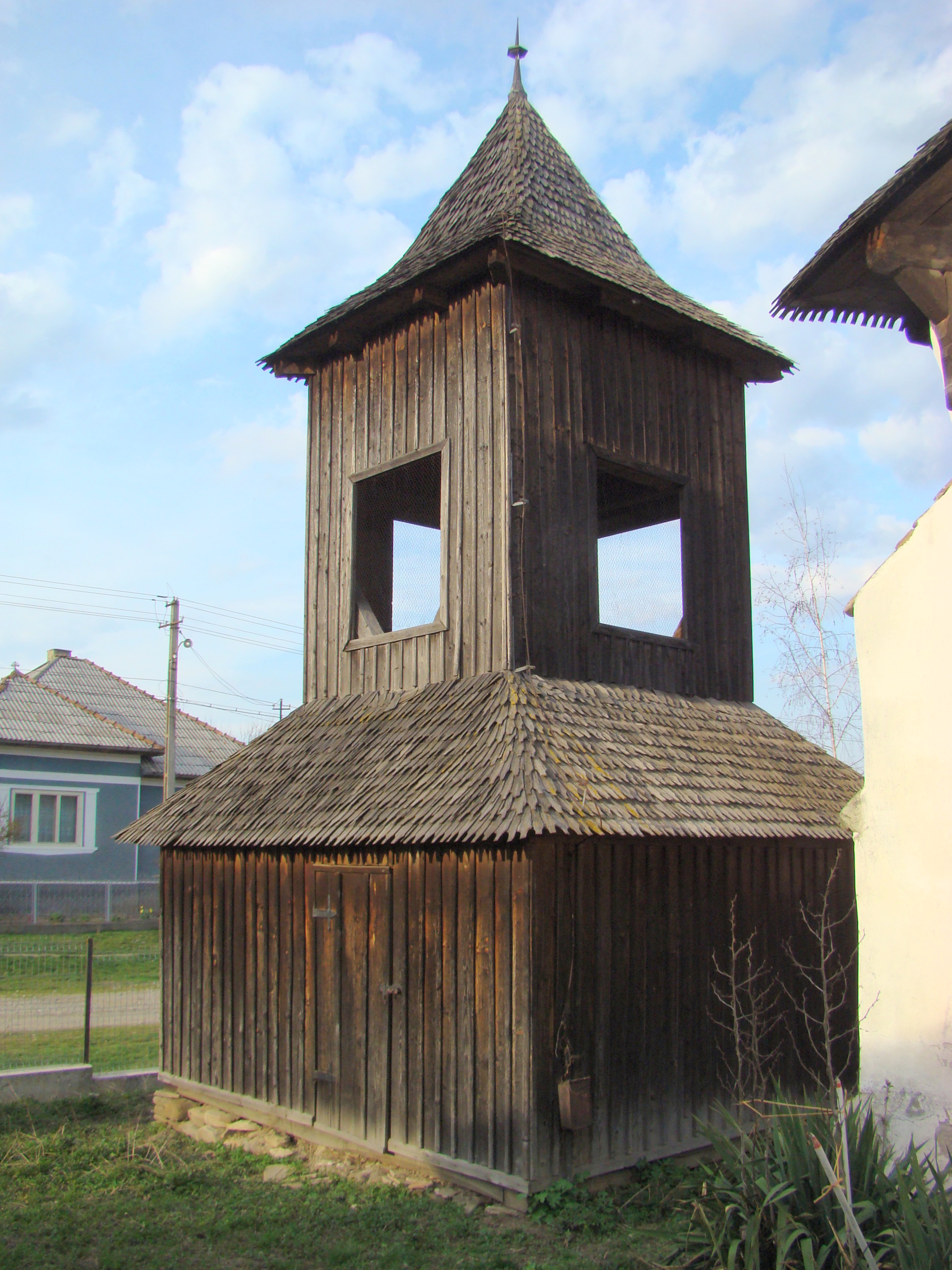 The belfry of the reformed church in Șirioara, Bistrița-Năsăud county, Romania